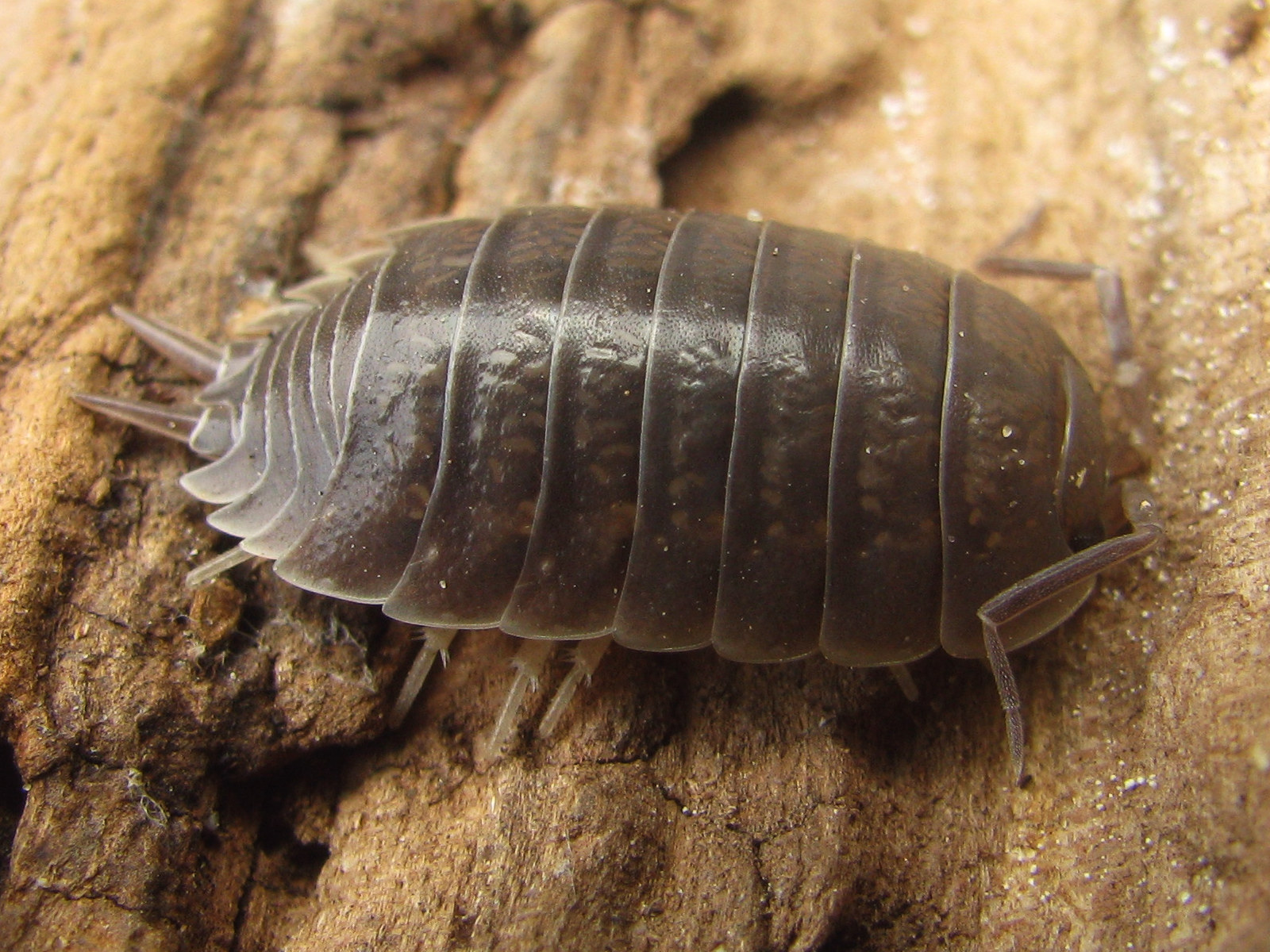 Porcellio laevisLocation: Bouxweerd, Netherlands